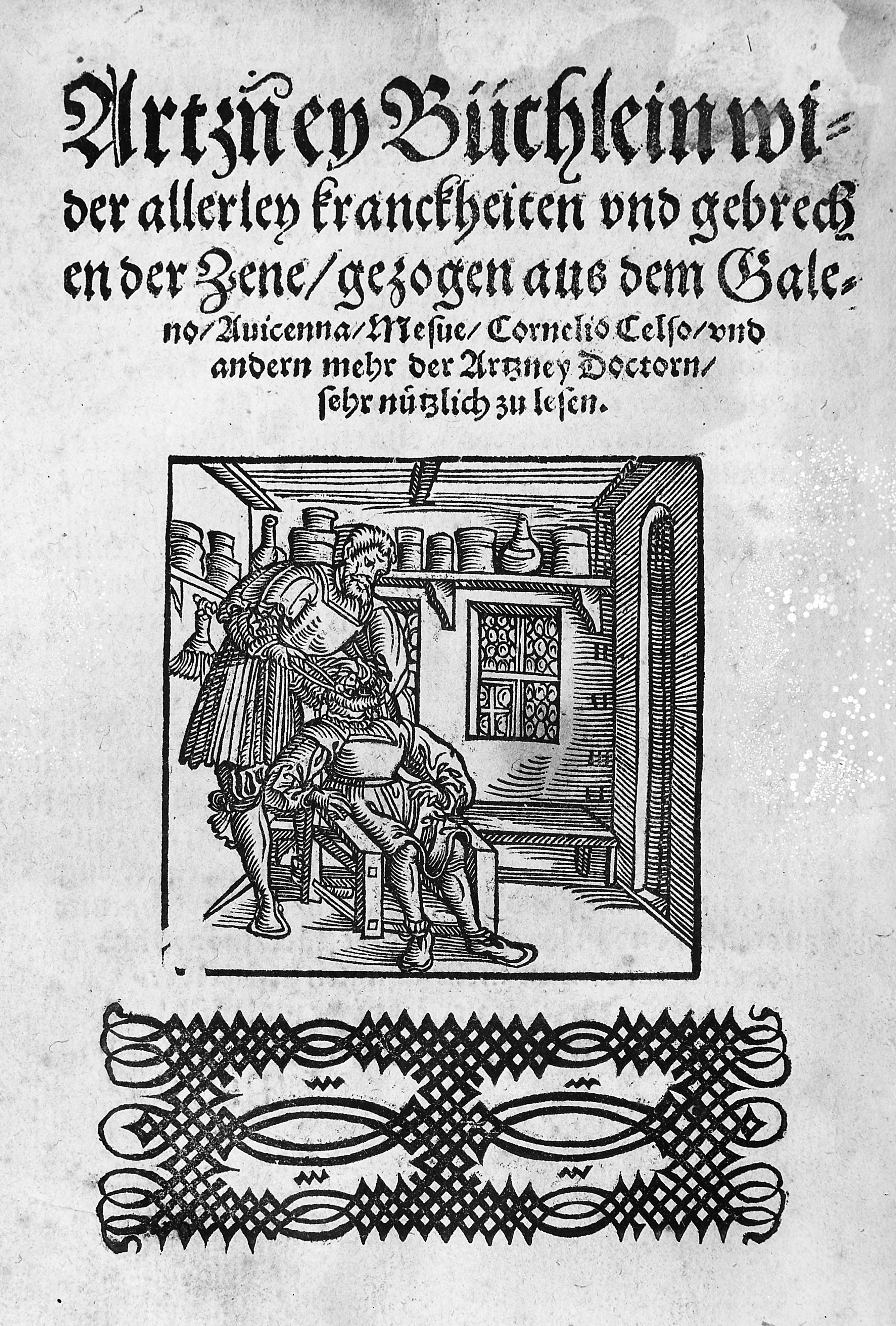 Removal of teeth with forceps Rare Books Keywords: Dentistry